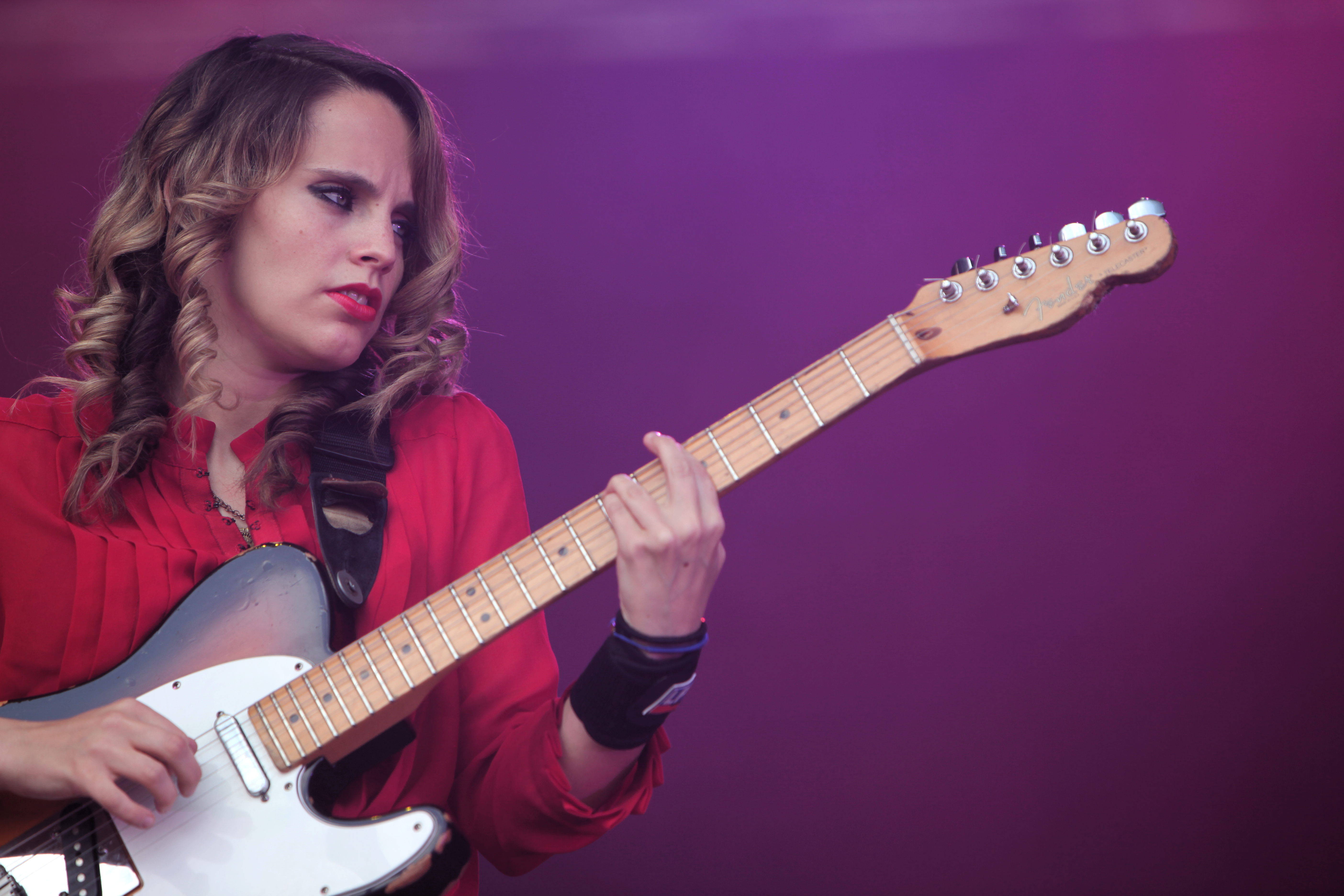 Anna Calvi at the Eurockéennes de Belfort 2011 The making of this document was supported by Wikimedia CH. (Submit your project!) For all the files concerned, please see the category Supported by Wikimedia CH.